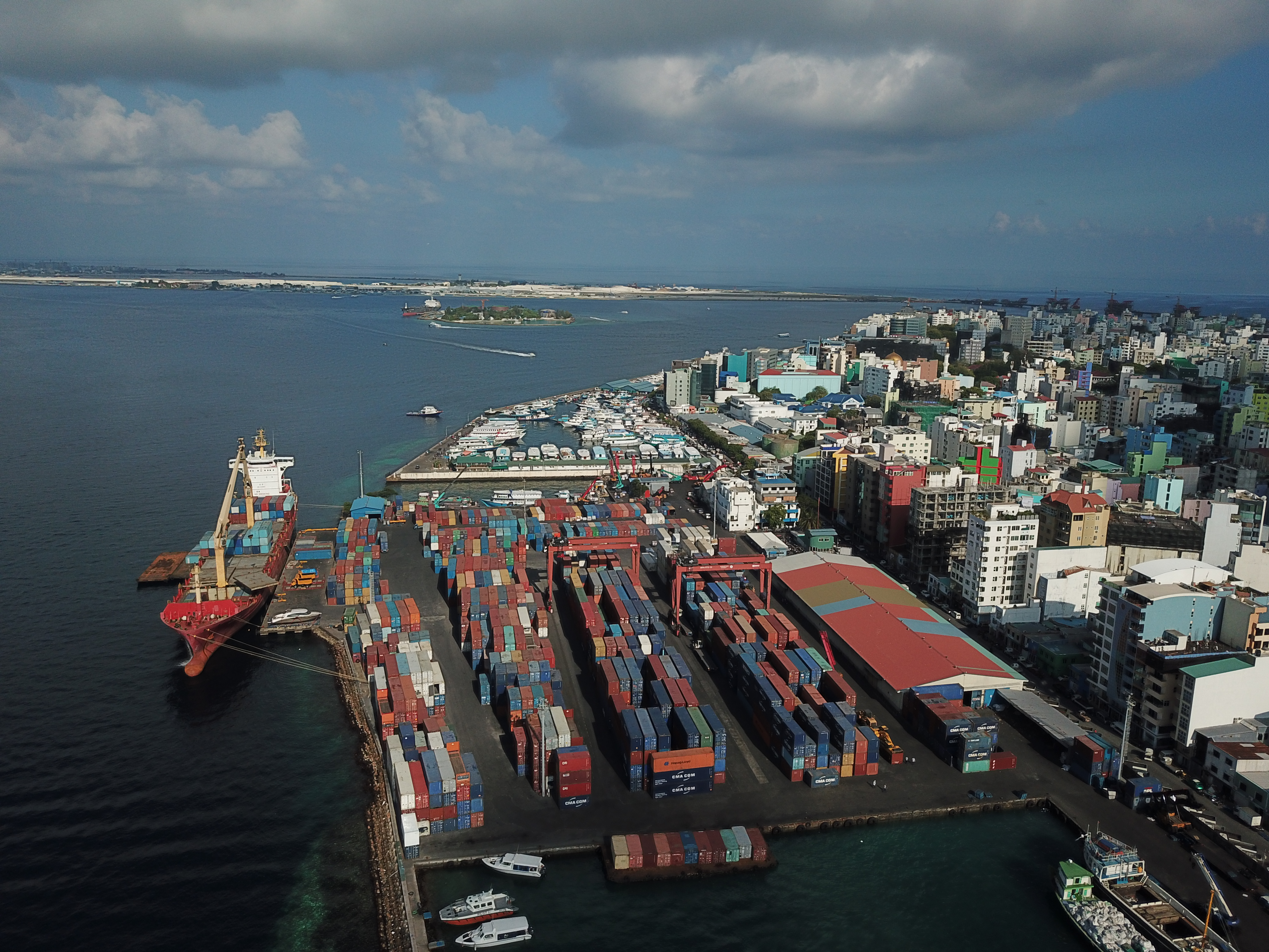 Aerial Picture of the port of Malé.